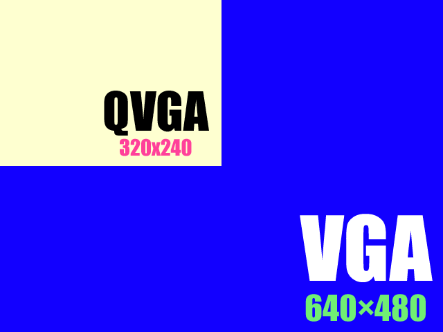 This image shows the full resolution of VGA compared to that of QVGA (Quarter VGA), which is used in, among other things, the Apple iTunes Music Store.